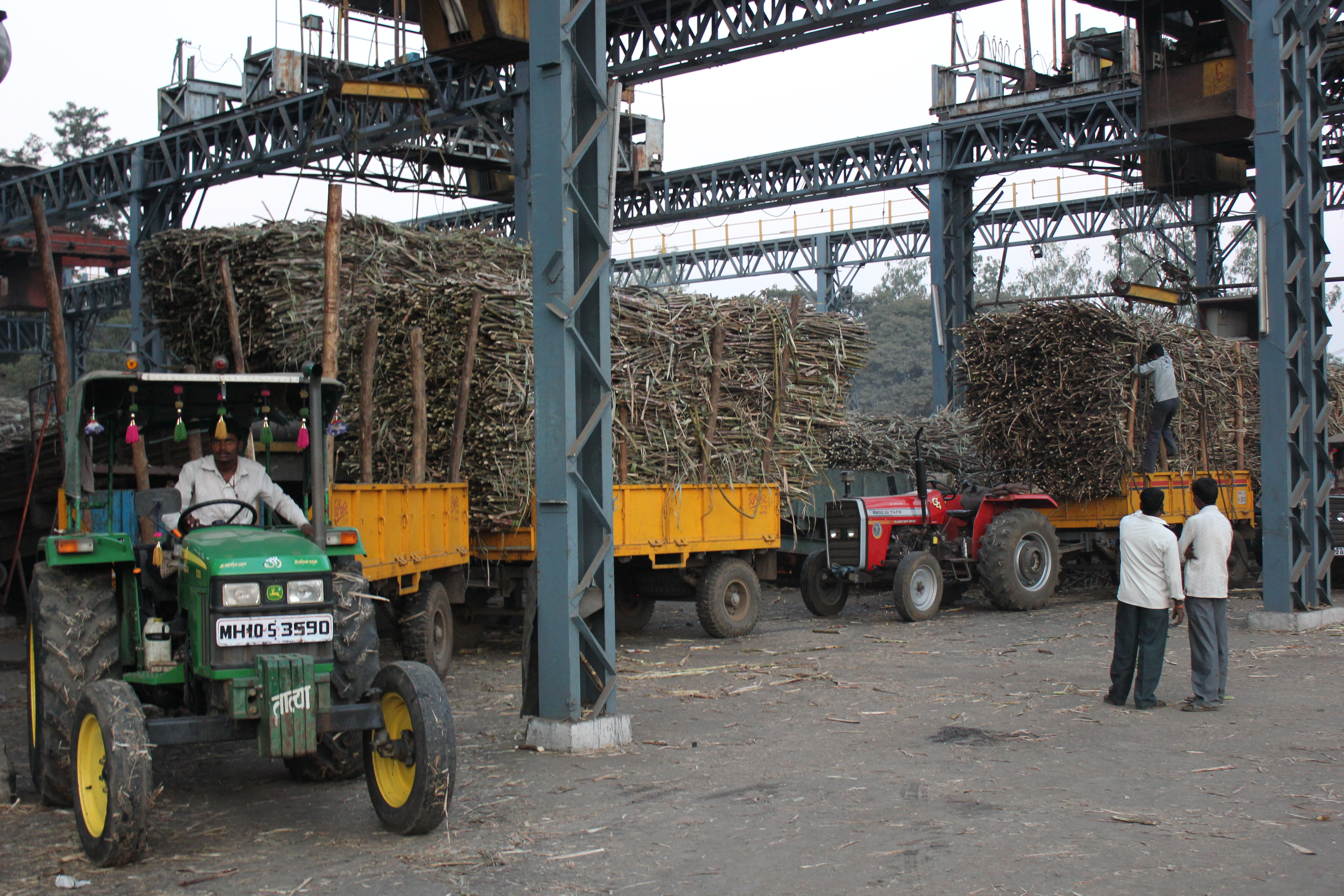 Weighing of sugarcane at a cooperative sugarmill in Maharashtra India